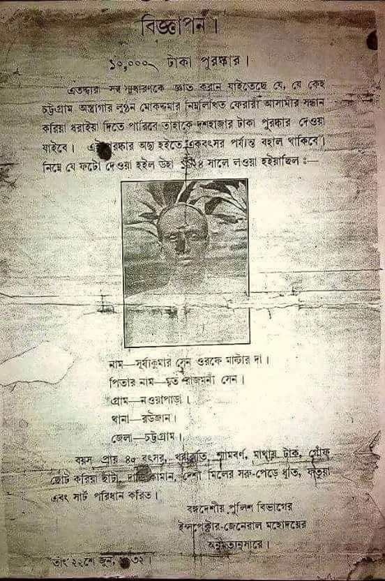 Surya Sen wanted 22 June 1932, Published by the Inspector general of the Police Division of Undivided Bengal